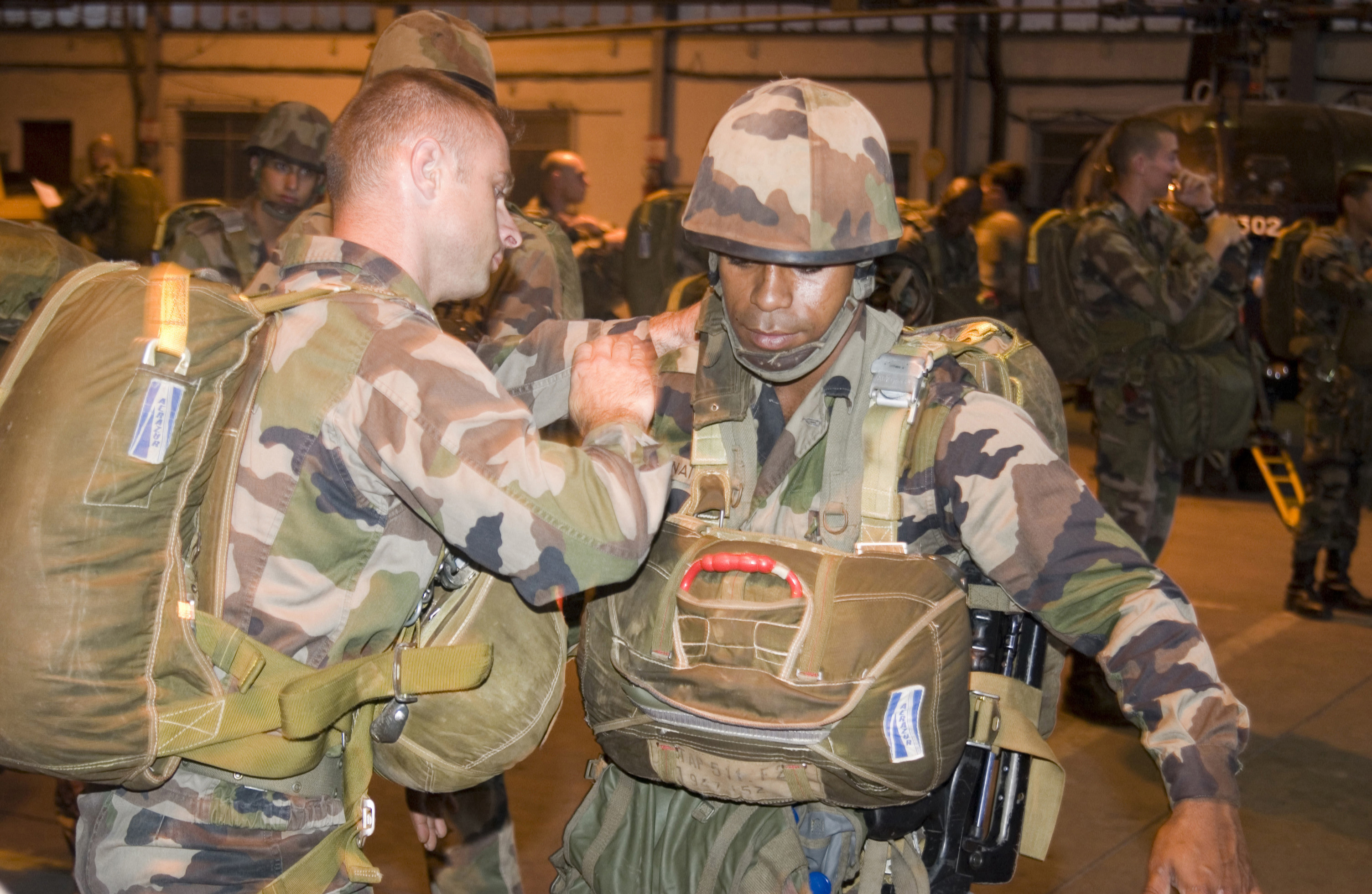 U.S. military personnel from Combined Joint Task Force - Horn of Africa and French Foreign Legion servicemembers conduct equipment familiarization at Camp Lemonier, Djibouti, March 8, 2007, prior to a parachute jump to ensure interoperability between the two forces. (U.S. Navy photo by Chief Mass Communication Specialist Philip A. Fortnam) (Released) (Released to Public)